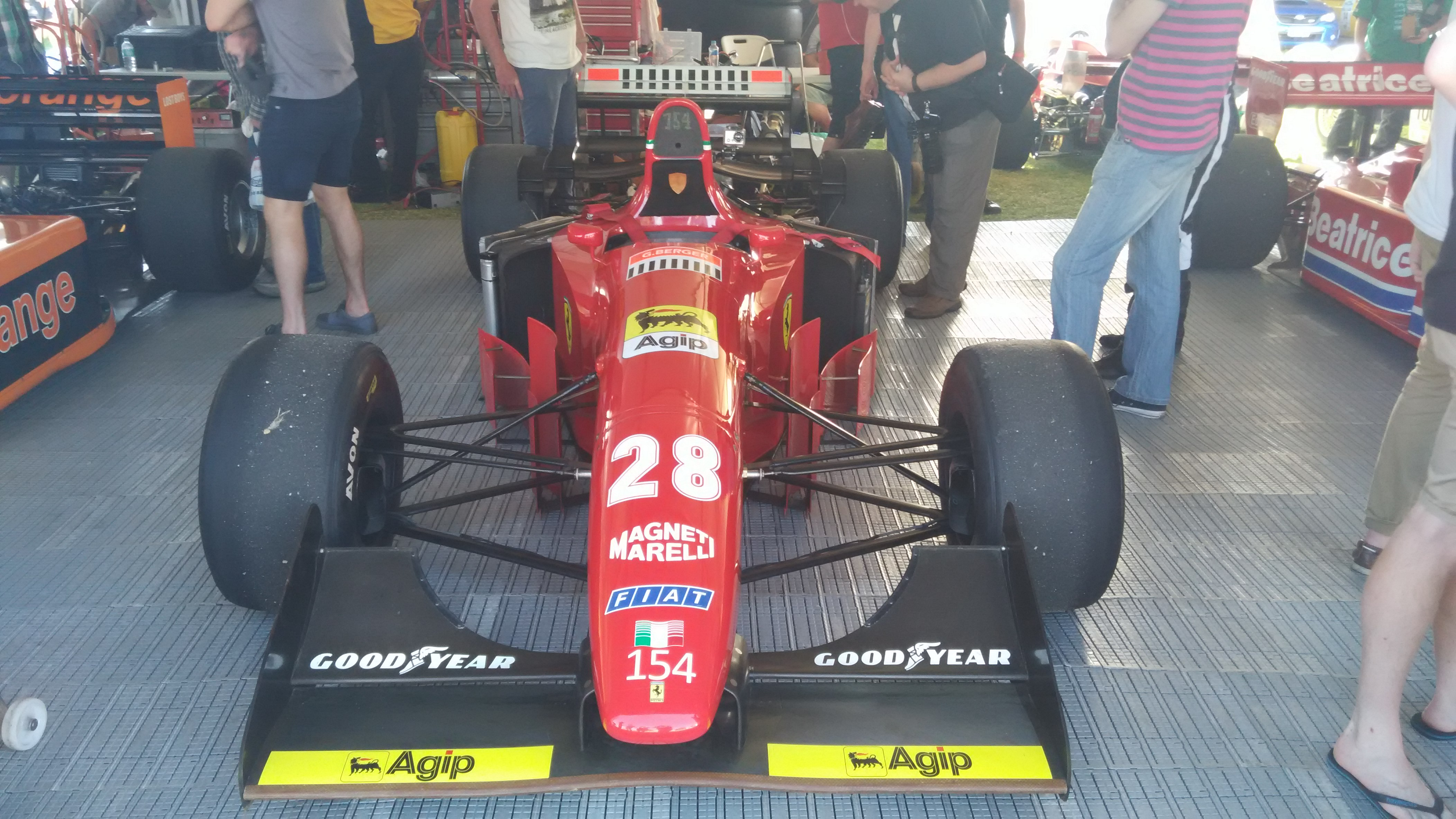 Taken at Adelaide Motorsport Festival 2015